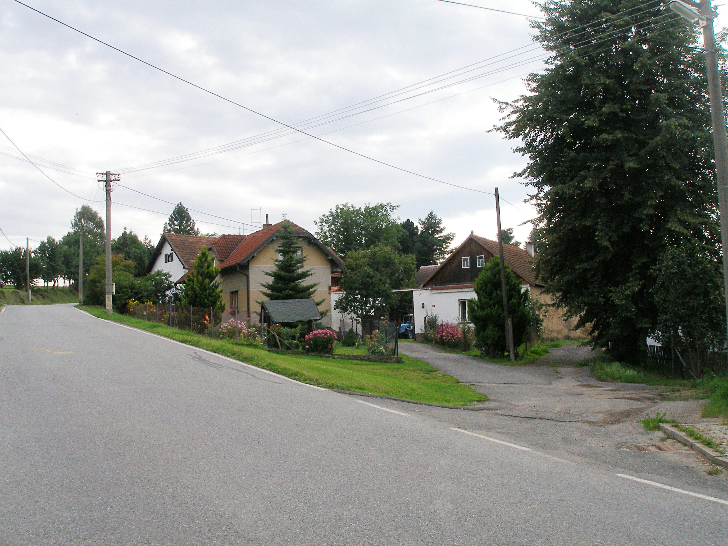 Houses on the Hojanovice square